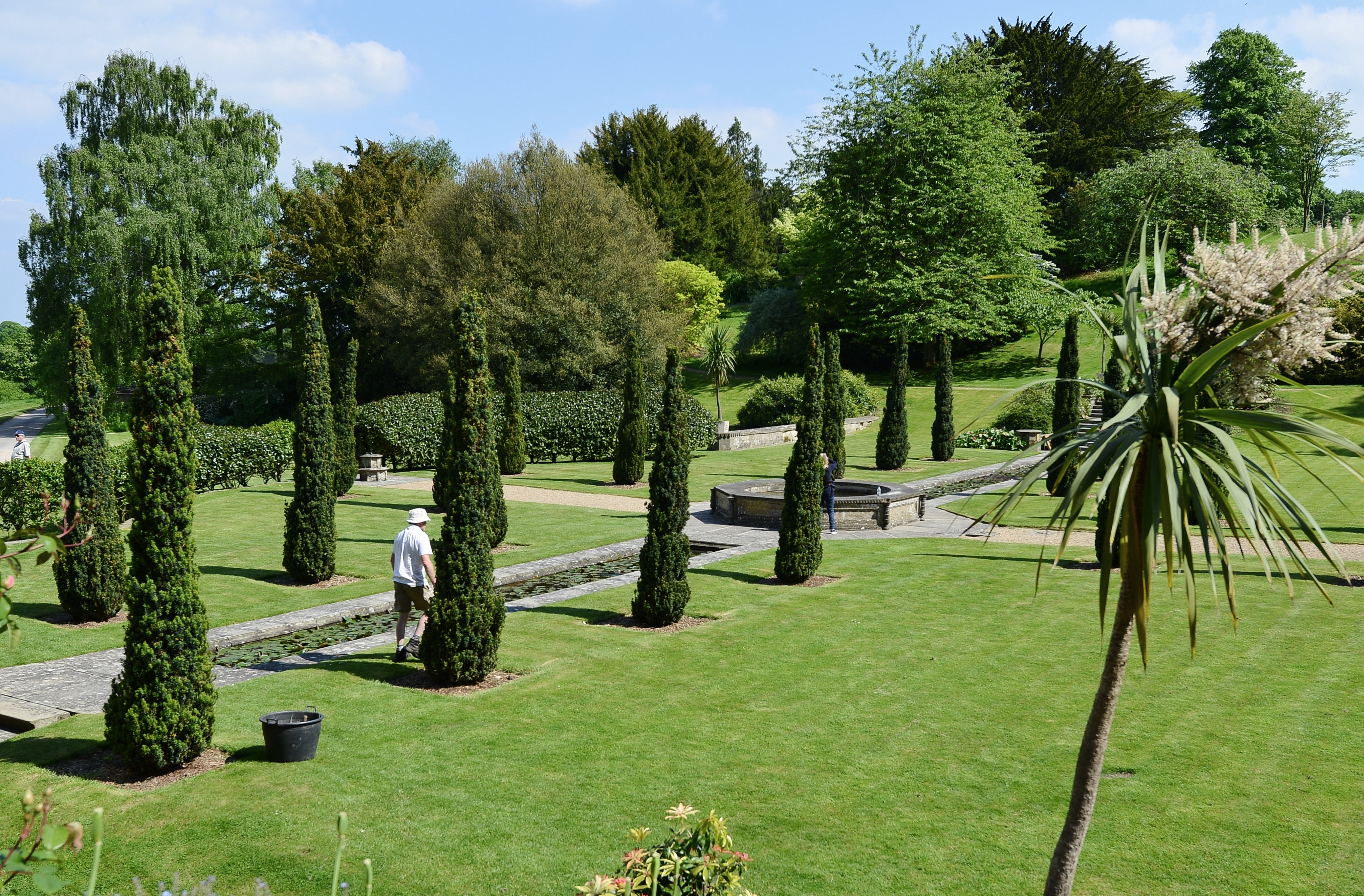 Sezincote House: The Persian Garden